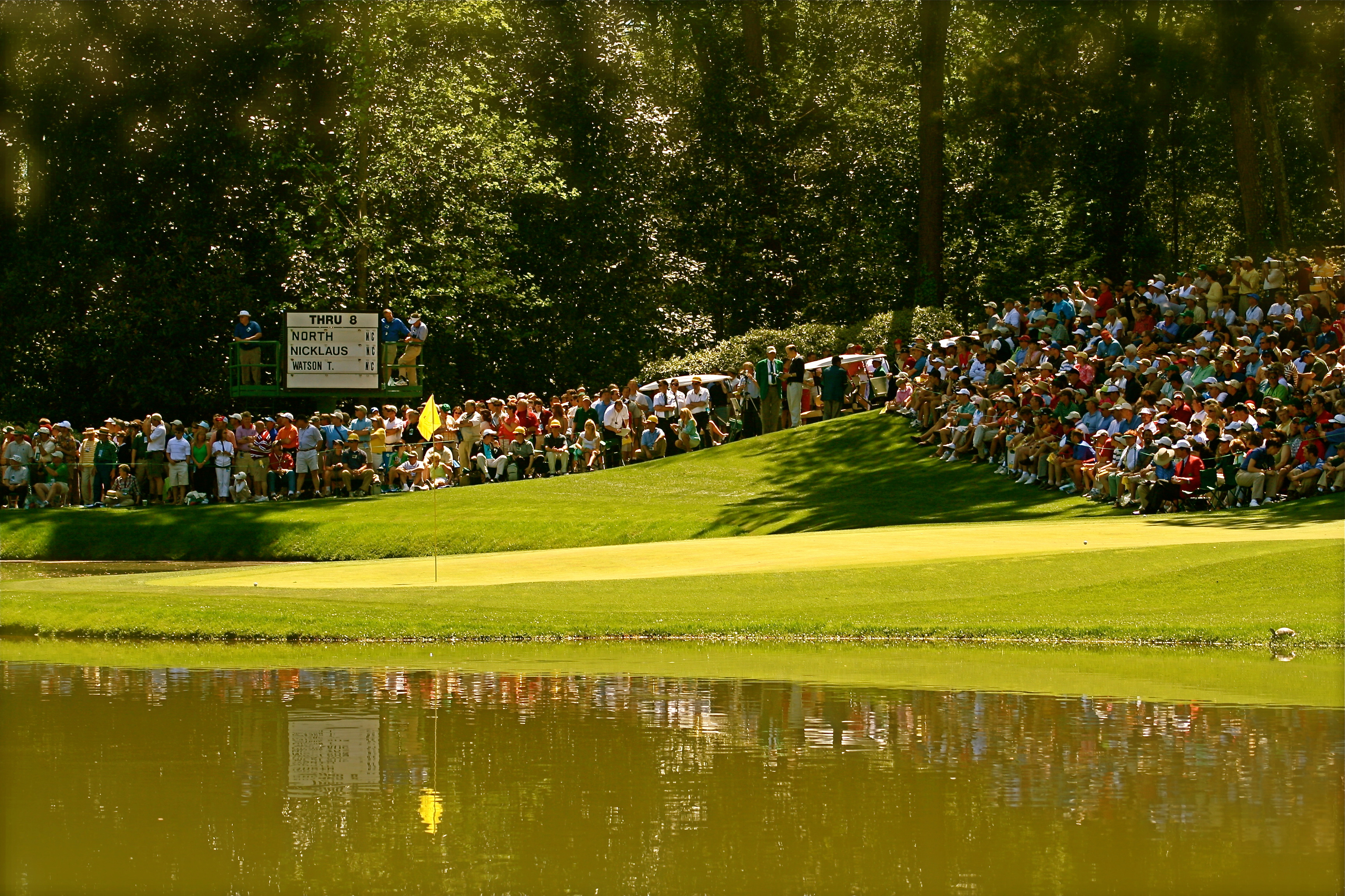 The 9th hole on the par-3 course at the Augusta National Golf Club during the par-3 contest prior to the 2006 Masters Tournament. Jack Nicklaus' ball is to the left of the pin, and he had his grandson putt it (and he made it). The sequence can be seen on a video posted to youtube, Jack Nicklaus - Augusta 2006. Andy North's ball is to the right. Nicklaus, North, and Tom Watson were playing as non-competitors in the par-3 contest.